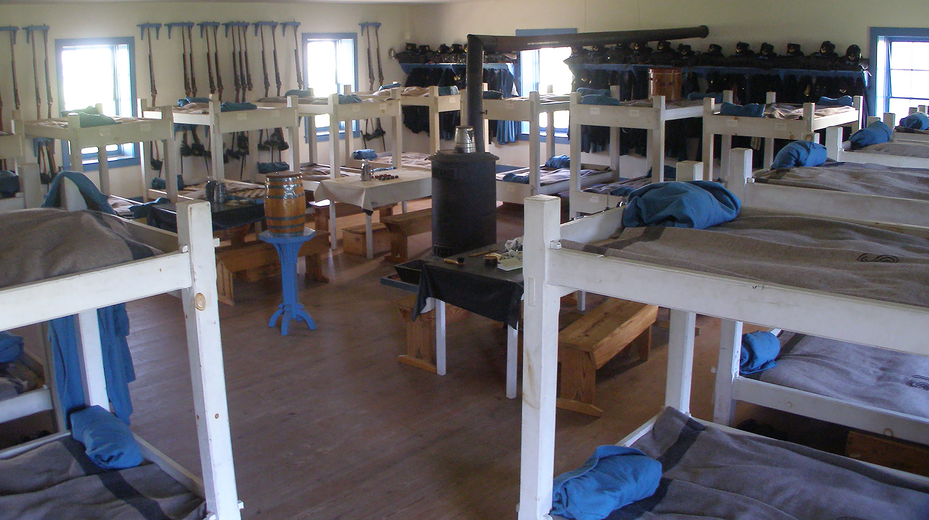 "Squad room for C Company, 3rd U.S. Infantry."